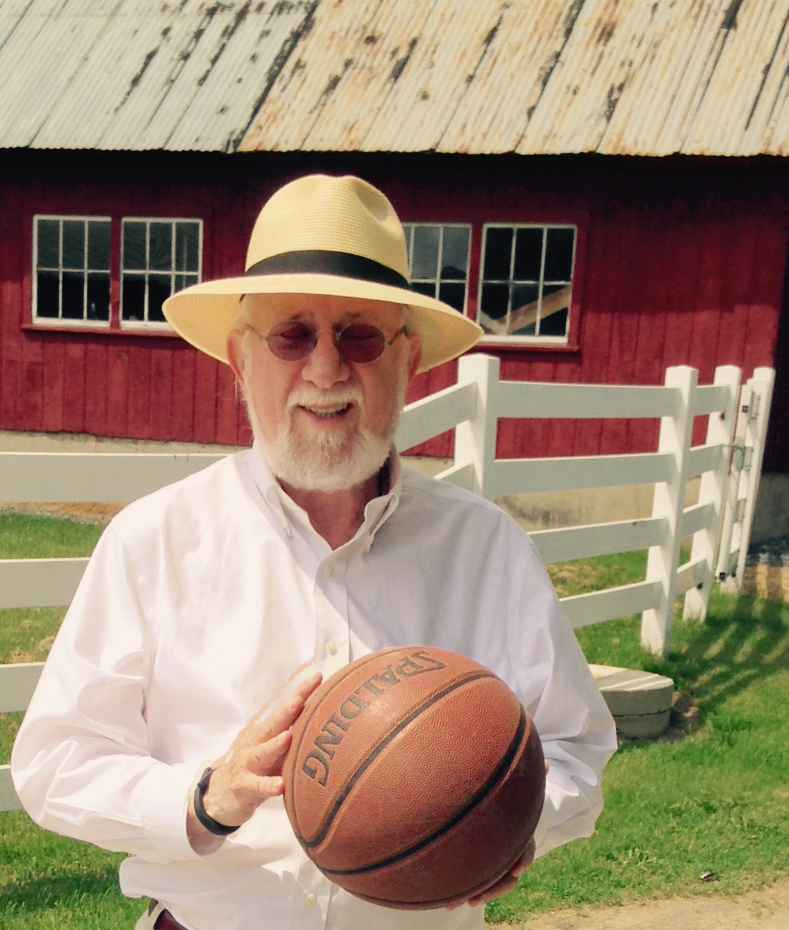 Dan playing basketball